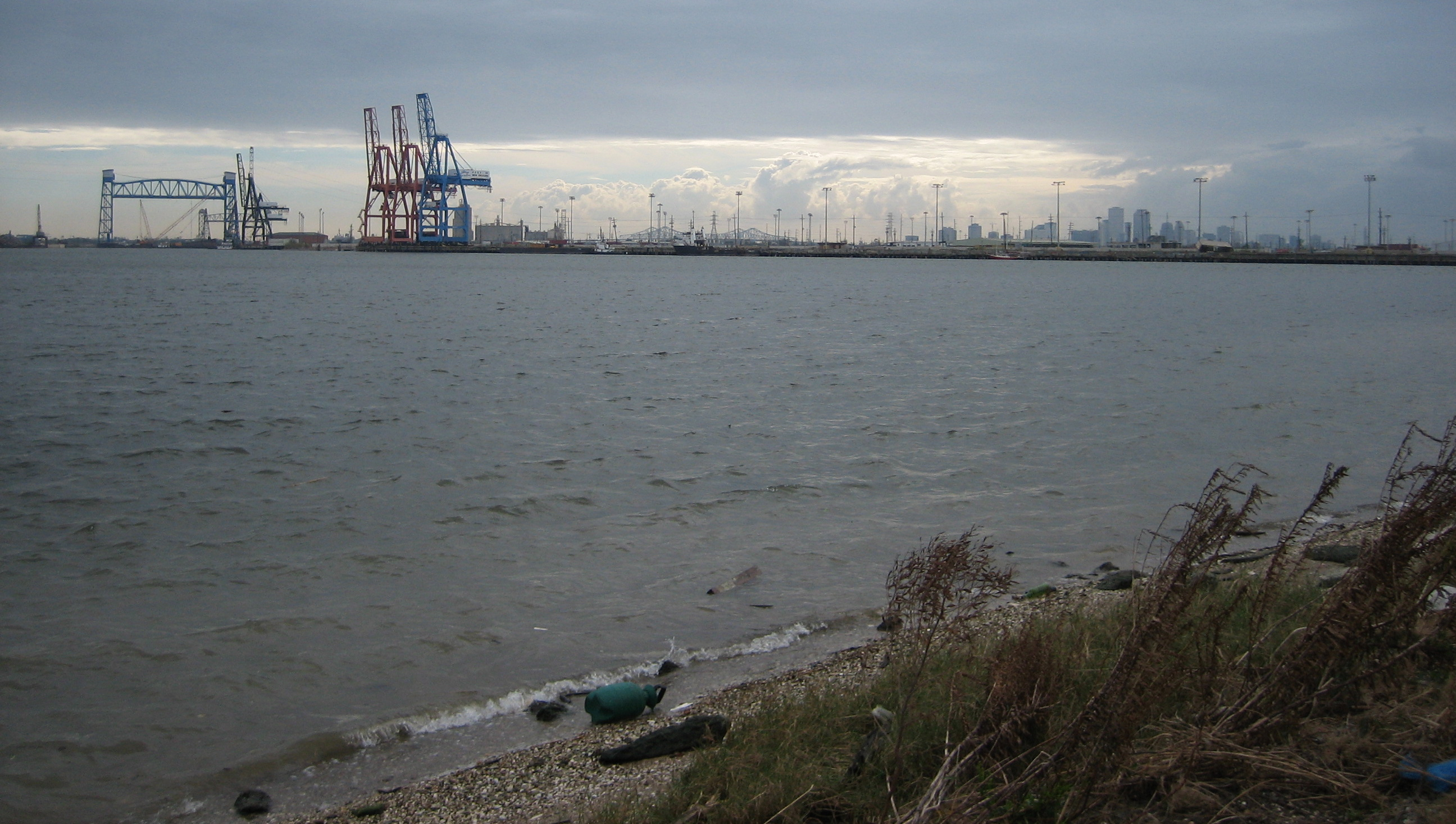 New Orleans, Louisiana: View of the Industrial Canal. The skyscrapers of the New Orleans Central Business District are visible in the distance at the upper right. At upper left, under the blue framework of the Florida Avenue Bridge, the Canal continues towards the Mississippi River. At front left is the junction with the Intercoastal Waterway/Mississippi River Gulf Outlet.